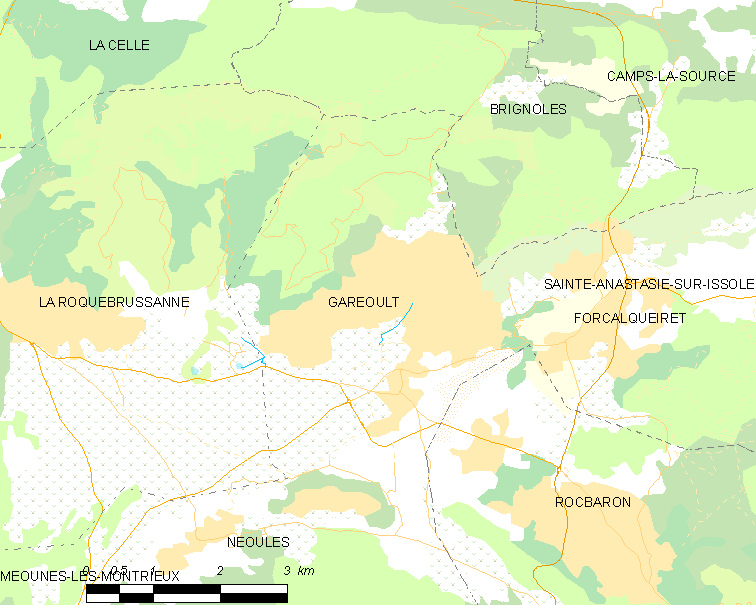 Map of French municipality Garéoult